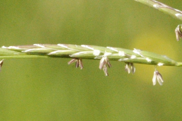 Picture taken in Commanster, Belgian High Ardennes . Species: Glyceria fluitans